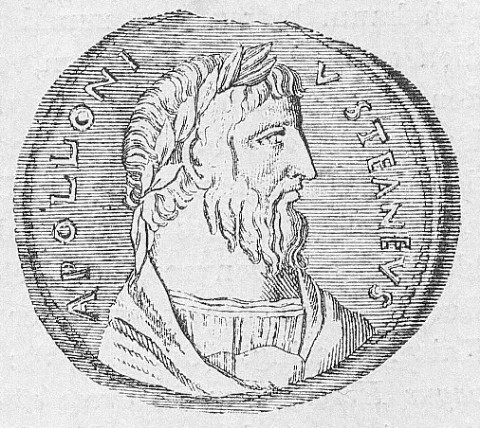 Text: "Apolloni-us Teaneus" (Apollonius of Tyana). Contorniato medallion in honor of Apollonius of Tiana. The large size medals (between 30 and 40 mm) are called this way, with a characteristic incised circle at the edge, which were manufactured from the middle of the fourth century, showing classical Greco-Roman figures.